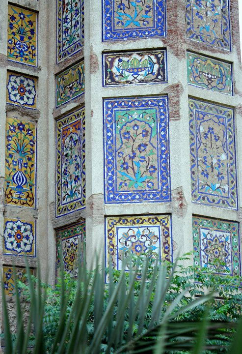 Chauburji This is a photo of a monument in Pakistan identified as the PB-46